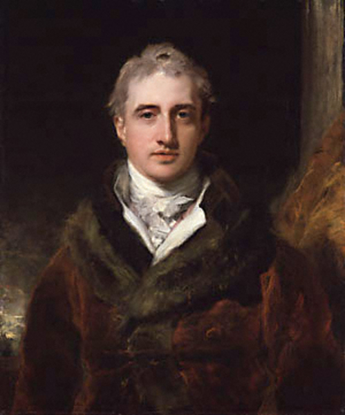 Robert Stewart (1769-1822), Viscount Castlereagh and second marquess of Londonderry